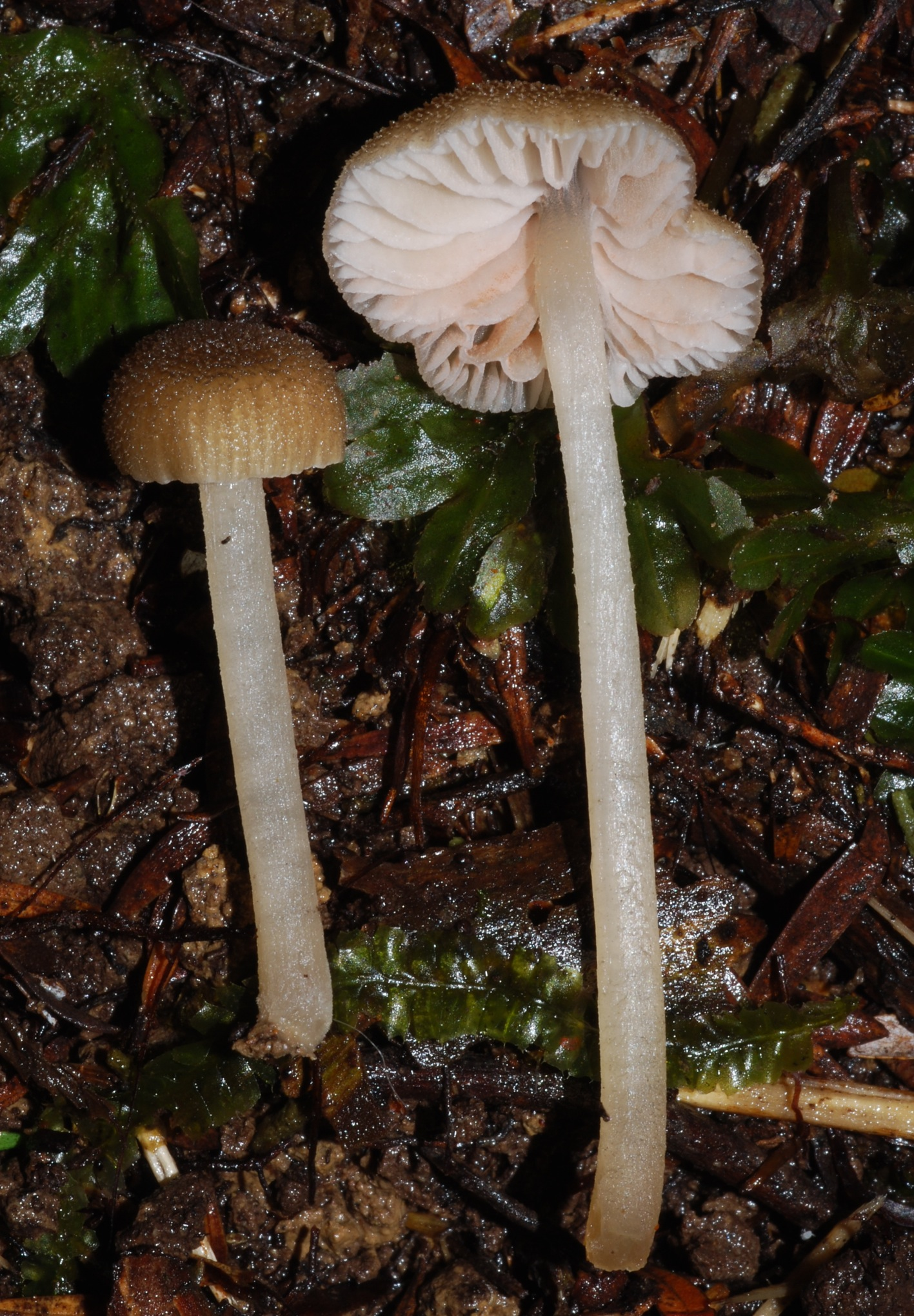 Entoloma corneum E.Horak Location: Auckland, New Zealand Observation Notes: Found in leaf litter under Leptospermum scoparium in native New Zealand forest.Pileus: 10-15mm in diameter. Hemispheric to convex. Squarrulose. Colour yellowish brown.Stipe: 30-40mm long by 2-3mm in diameter. Squarrulose. Even to slightly enlarged at the base. Colour white/translucent.Lamellae: Attachment adnexed to sinuate. Broad. Colour pale pinkish white. For more information about this, see the observation page at Mushroom Observer.